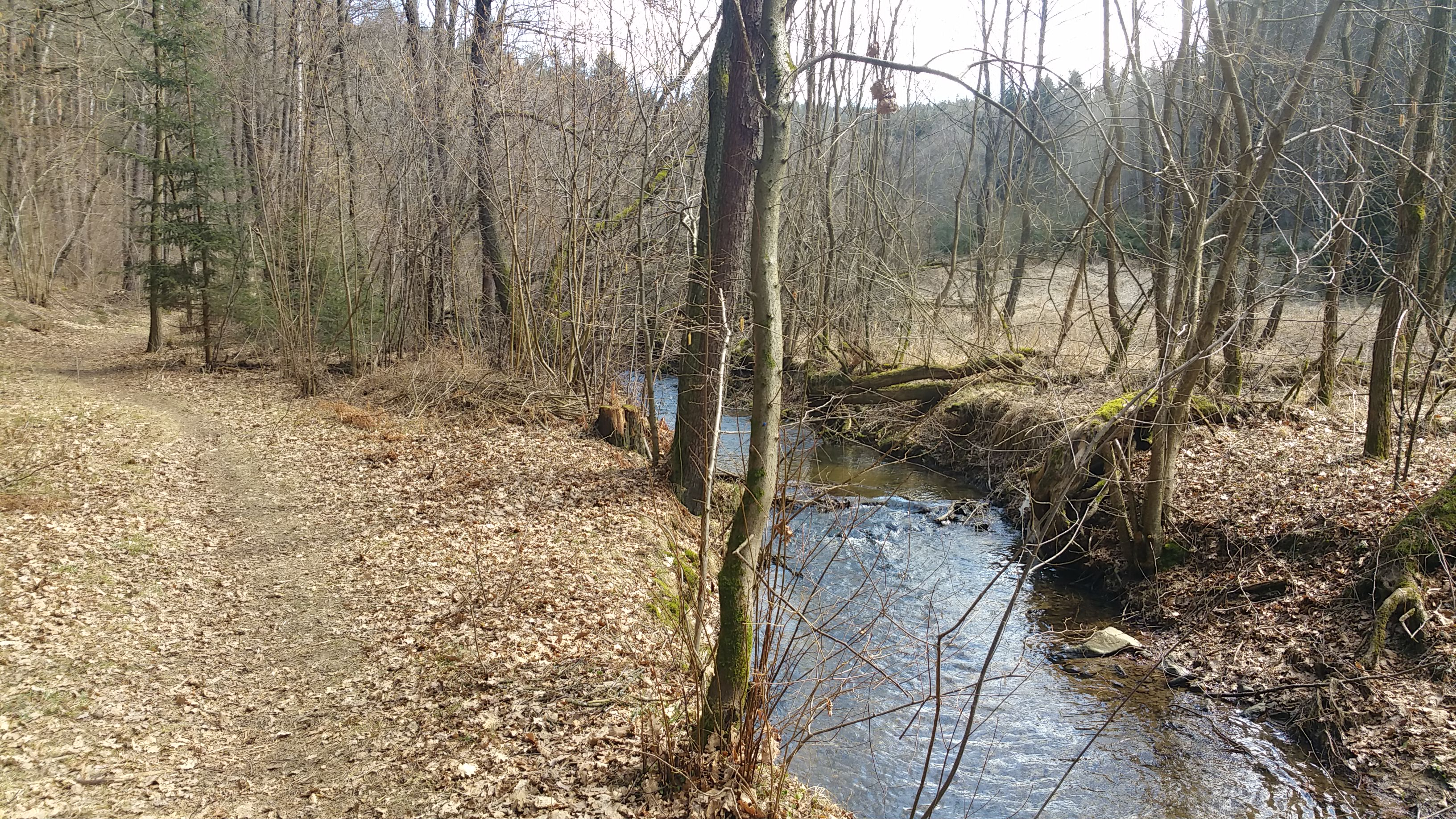 Jilecky stream South Bohemia